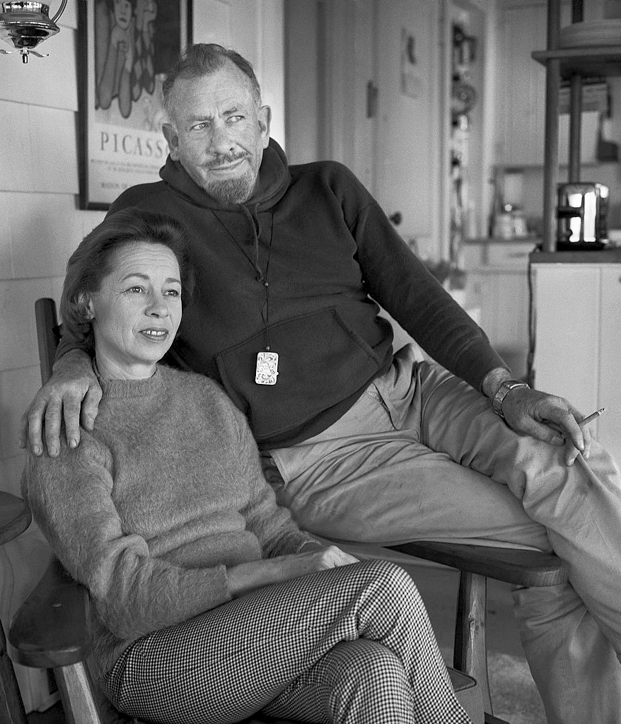 1950 Press Photo John Steinbeck and third wife Elaine Anderson Scott